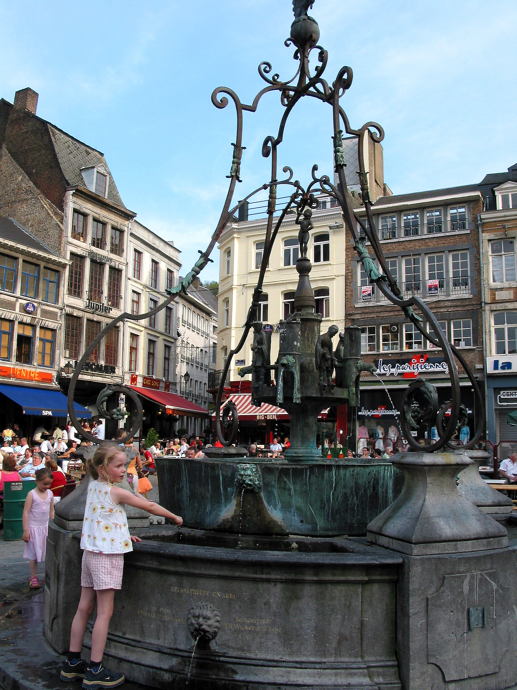 Huy (Belgium), the old fountain "Li bassinia" (XV/XVIIIth centuries).